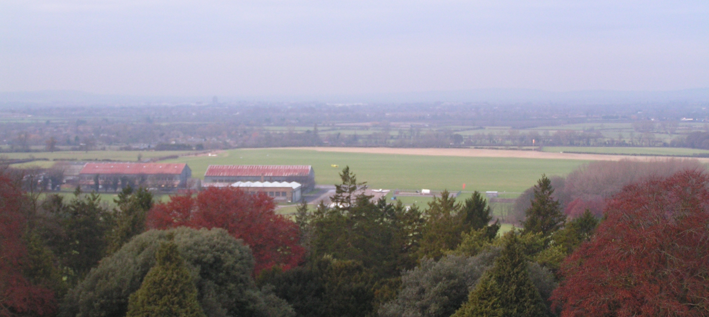 This photograph of Halton airfield was taken by the uploader and is released to the public domain.